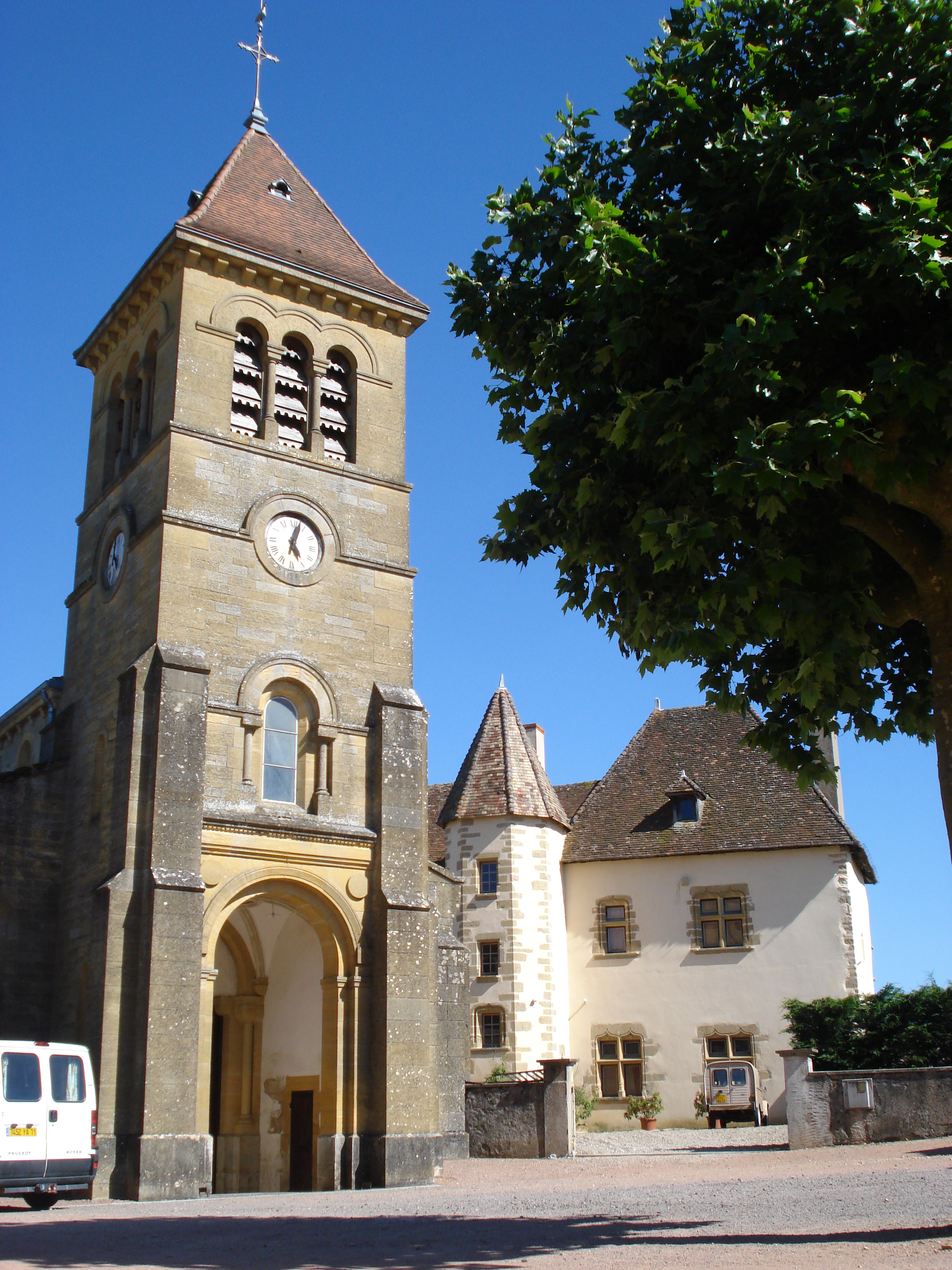 Saint-Vincent-Bragny (Saône-et-Loire, Fr), St.Martin church in Bragny